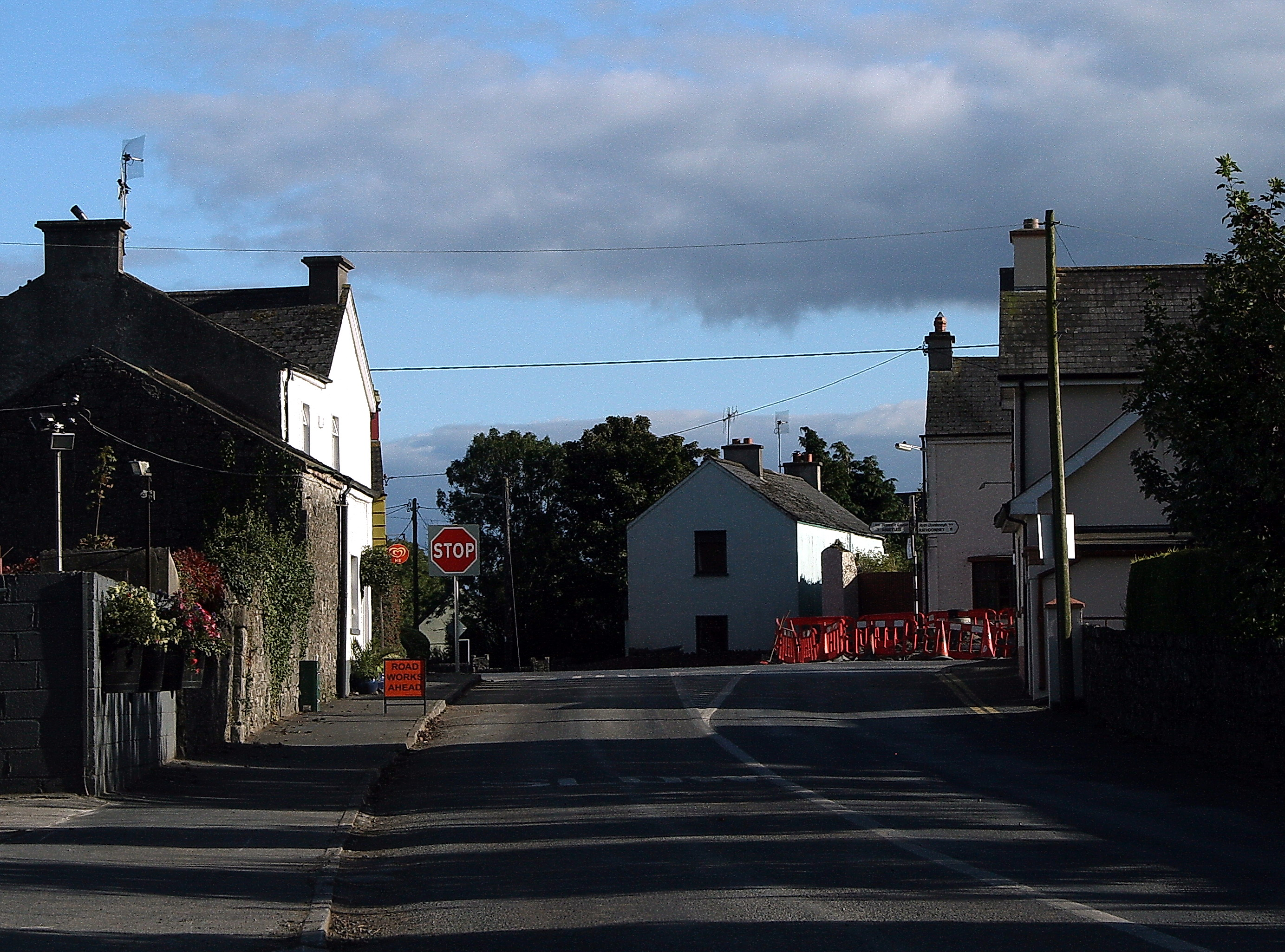 The R434 in Ballycolla, County Laois, Ireland approaching its junction with the R433 road.